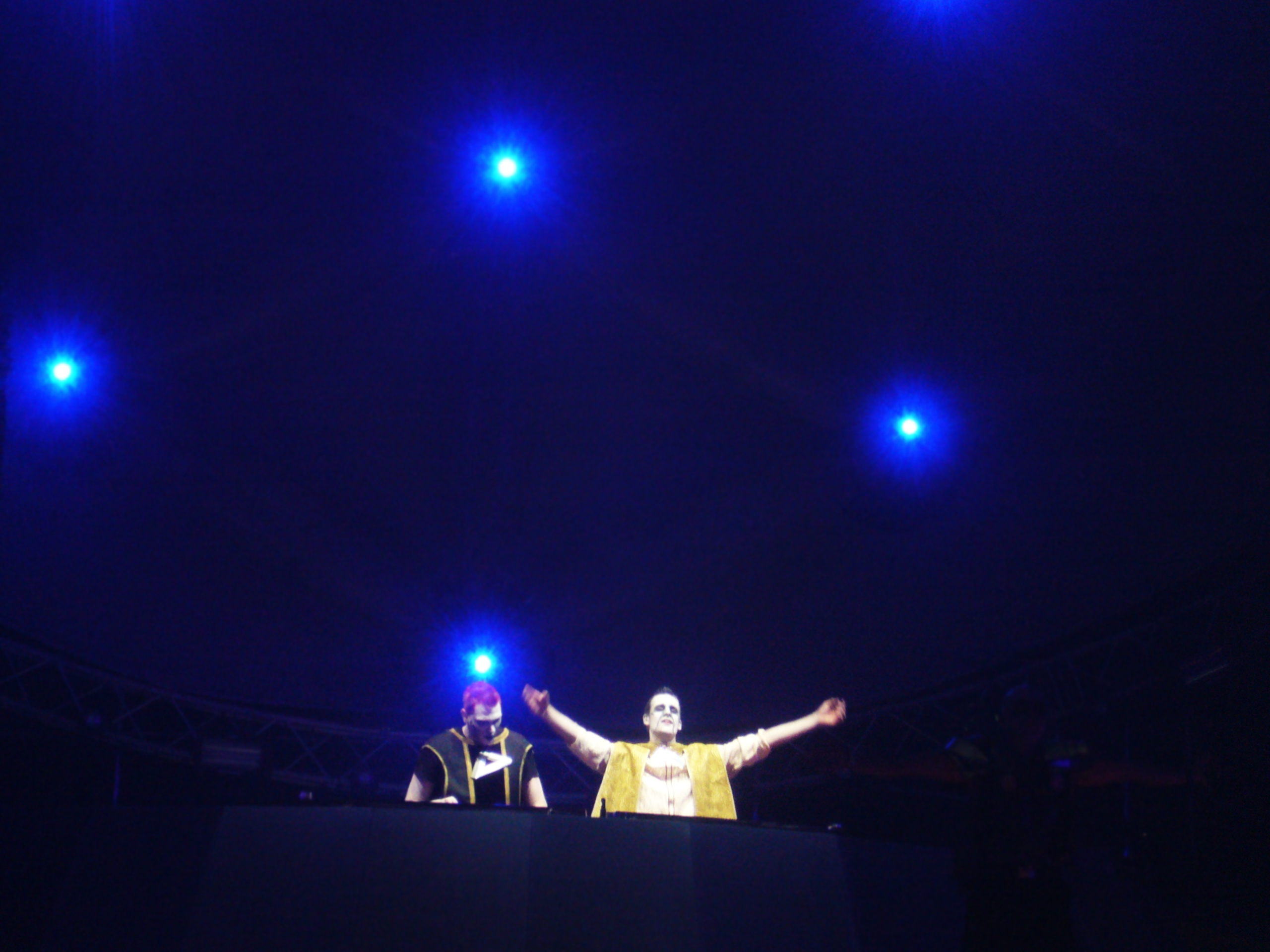 D-Block & S-te-Fan live at Qlimax 2008